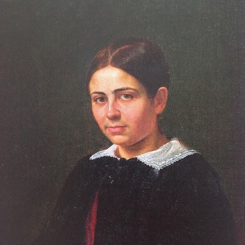 Georgia Skovgaard by p.c.Skovgaard date around 1650 but im guessing